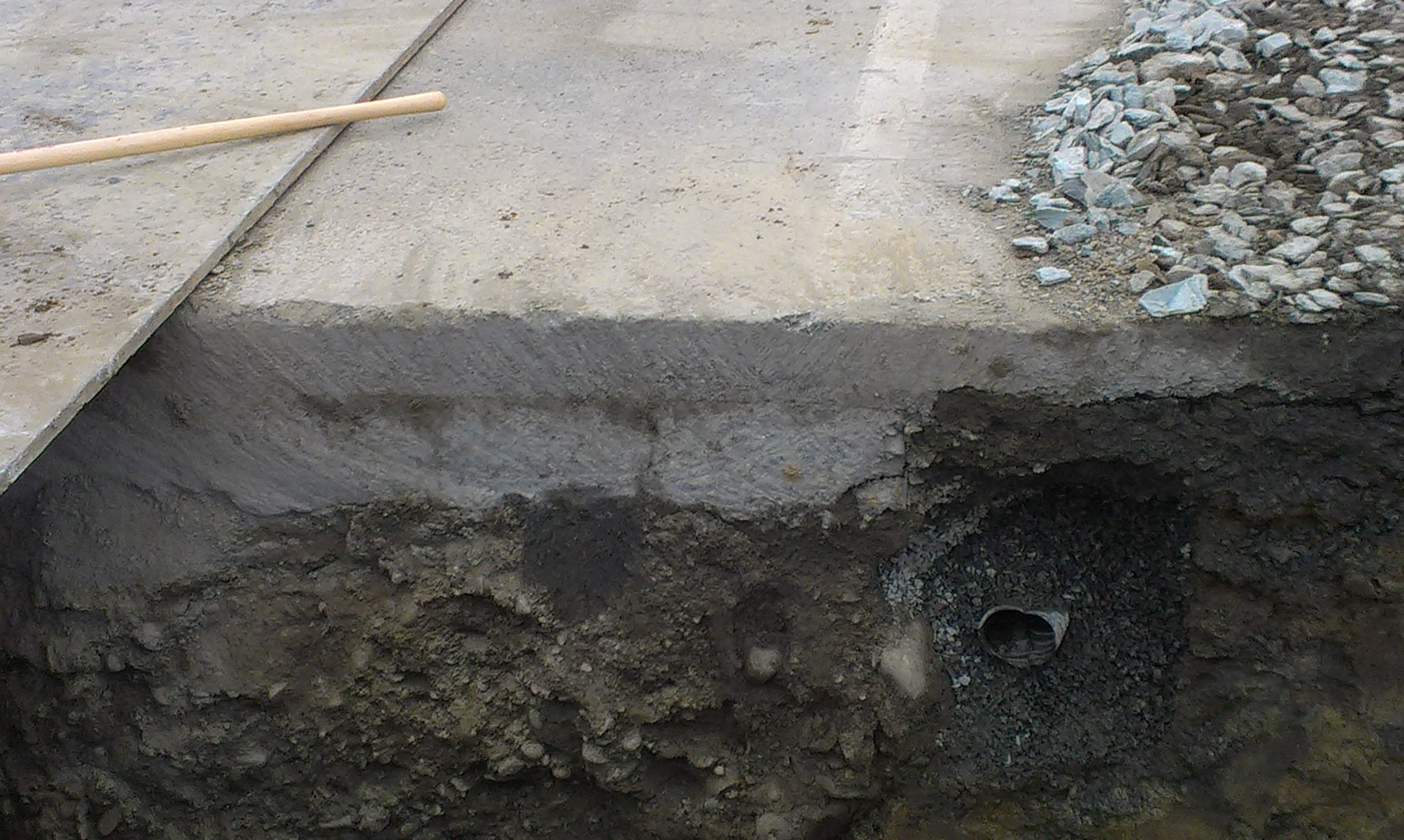 A cross section of composite pavement - Portland cement concrete with hot mix asphalt overlay. Also shows underdrain